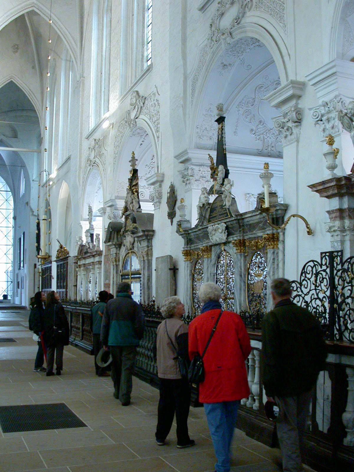 Lübeck Cathedral Interior